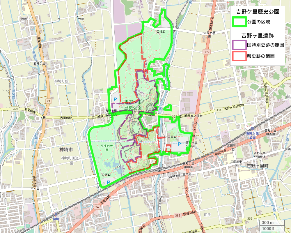 佐賀県吉野ヶ里遺跡周辺の地図。 Map around Yoshinogari site, Saga pref., Japan. This map may be incomplete, and may contain errors. Don't rely solely on it for navigation.